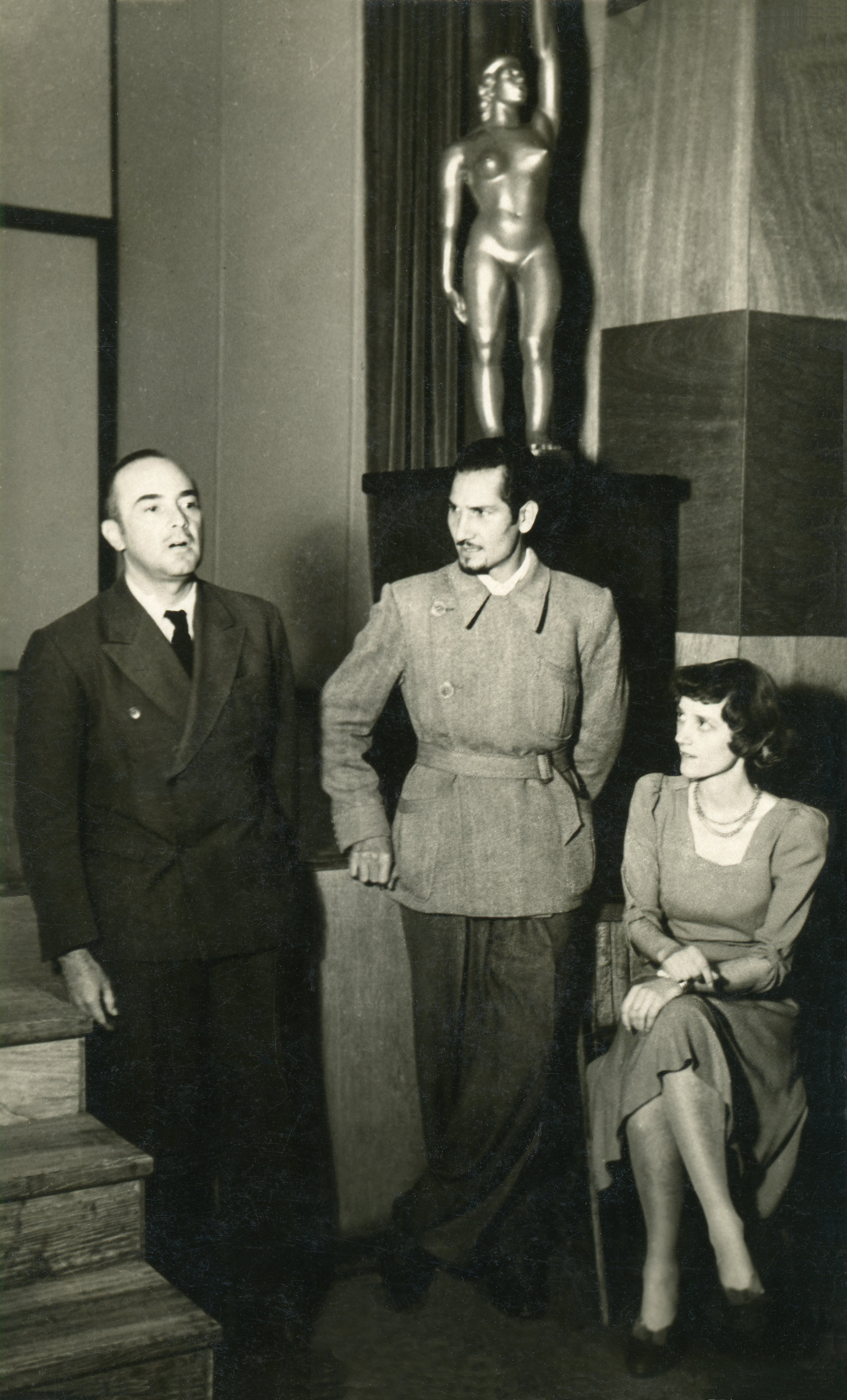 Inaugural Act of the Sculpture Exhibition by Julio Abril & Viola Horpel de Abril, Mexico City, 1942. The Mexican poet Carlos Pellicer gave the opening speech